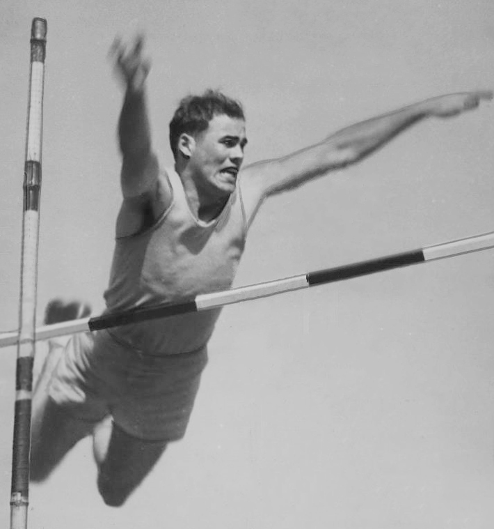 1934 Press Photo Bill Graber in pole vault of 14' 5" at Santa Barbara California